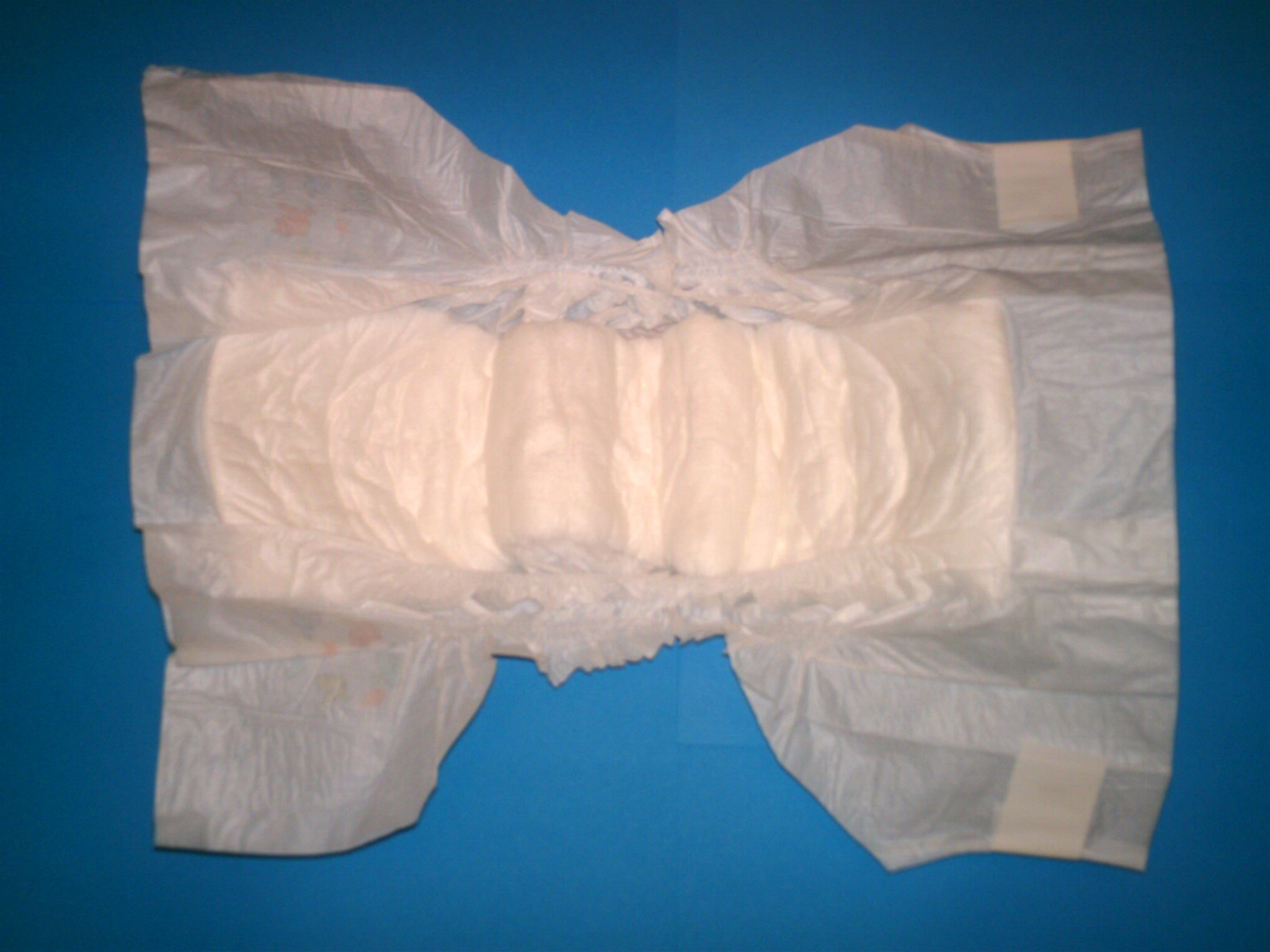 Disposable diaper, size 12-25kg/26-55lb.